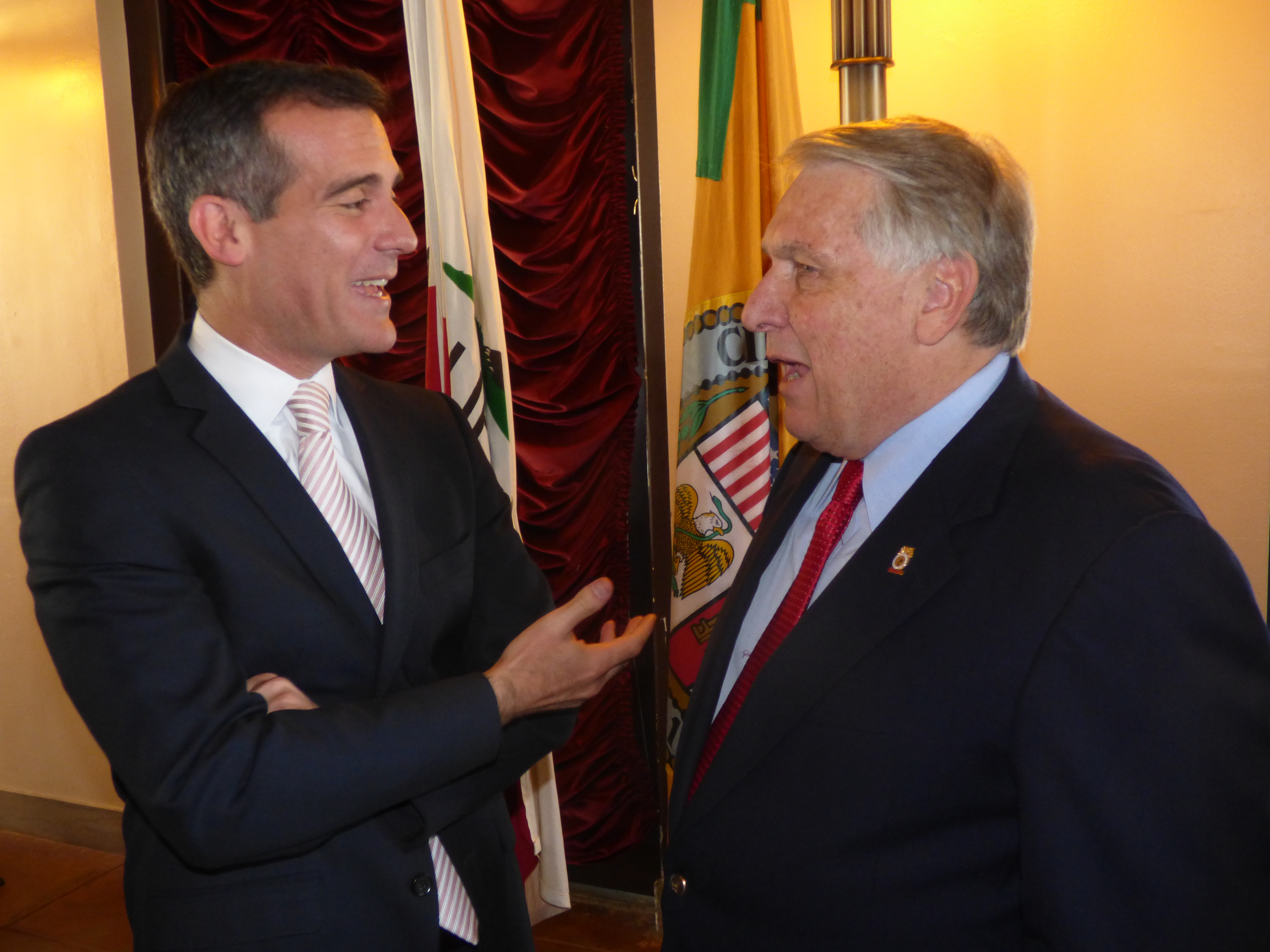 Mayor Garcetti meets with International Brotherhood of Teamsters General President Jimmy Hoffa Jr.